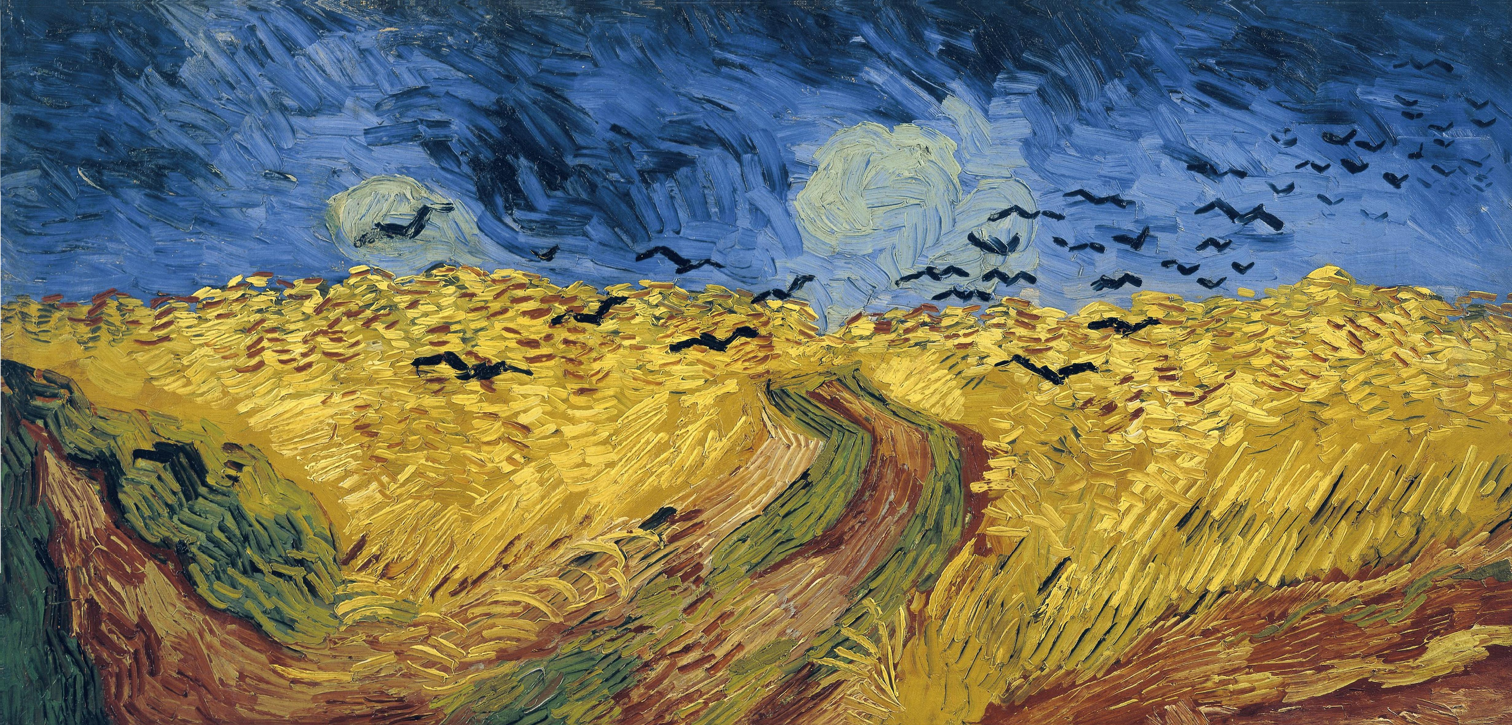 Wheatfield with Crows -- oil on canvas 101x50 cm Auvers june 1890